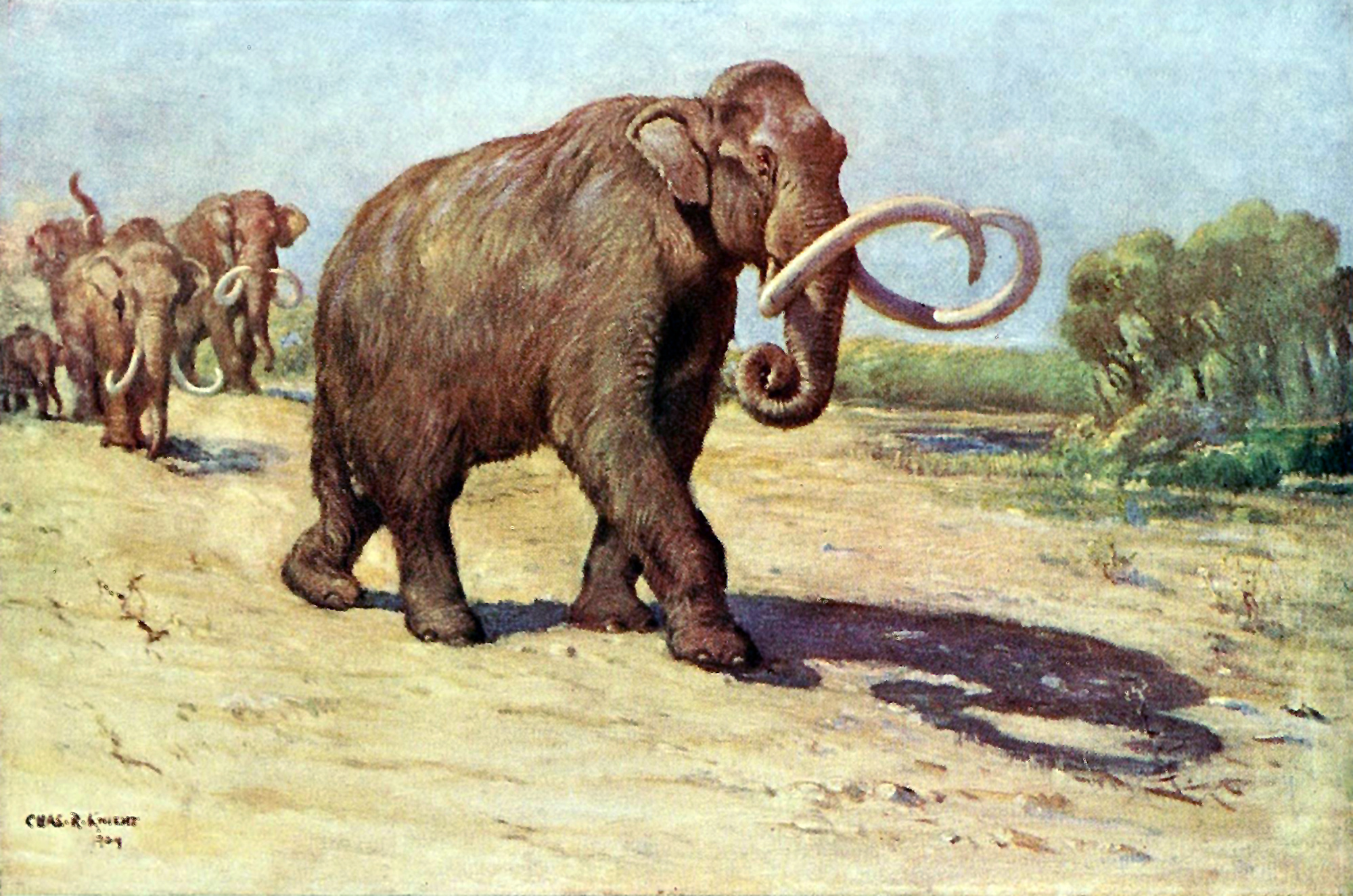 Columbian mammoth, based on the AMNH specimen (formerly M. jeffersonii).